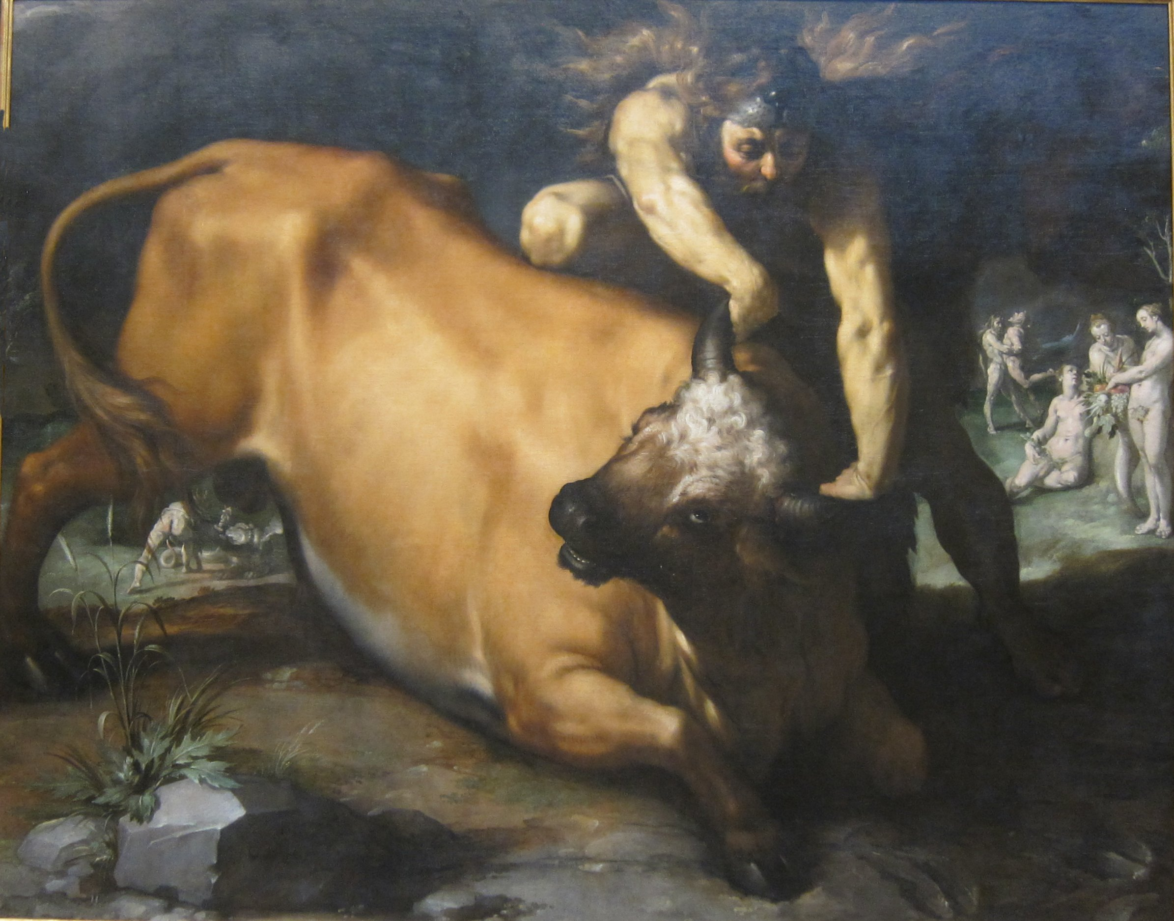 Hercules and Achelous by Cornelis Cornelisz. van Haarlem, 1590, oil on canvas, private collection